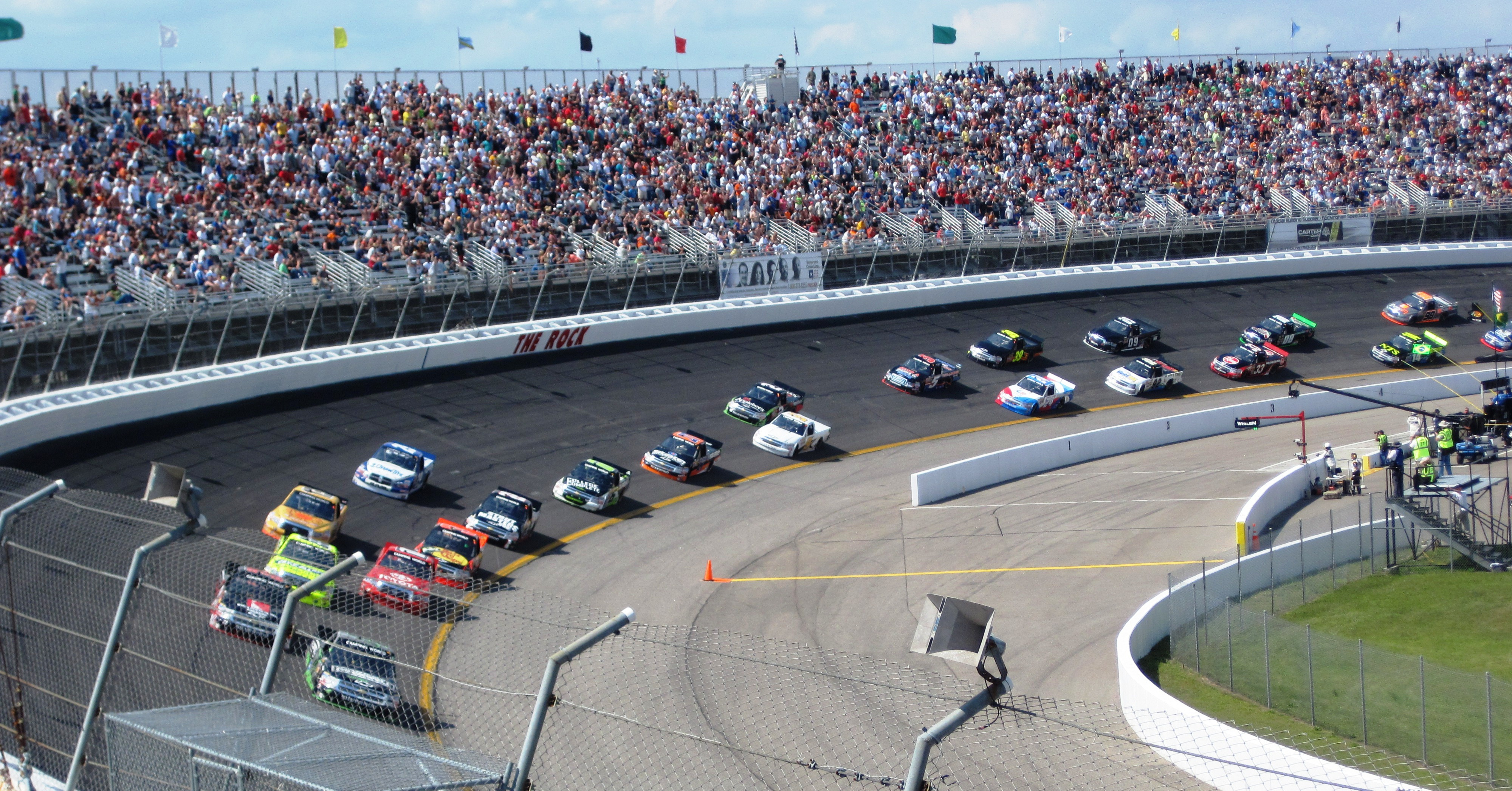 NASCAR returns to "The Rock" as the Camping World Truck Series races the Good Sam Roadside Assistance 200 at Rockingham Speedway on April 15, 2012.